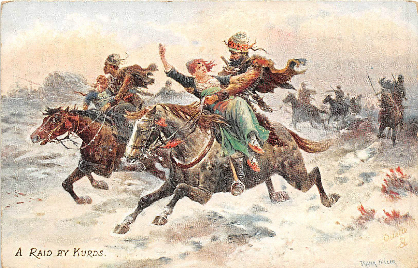 Kurdsih Wariors fighting